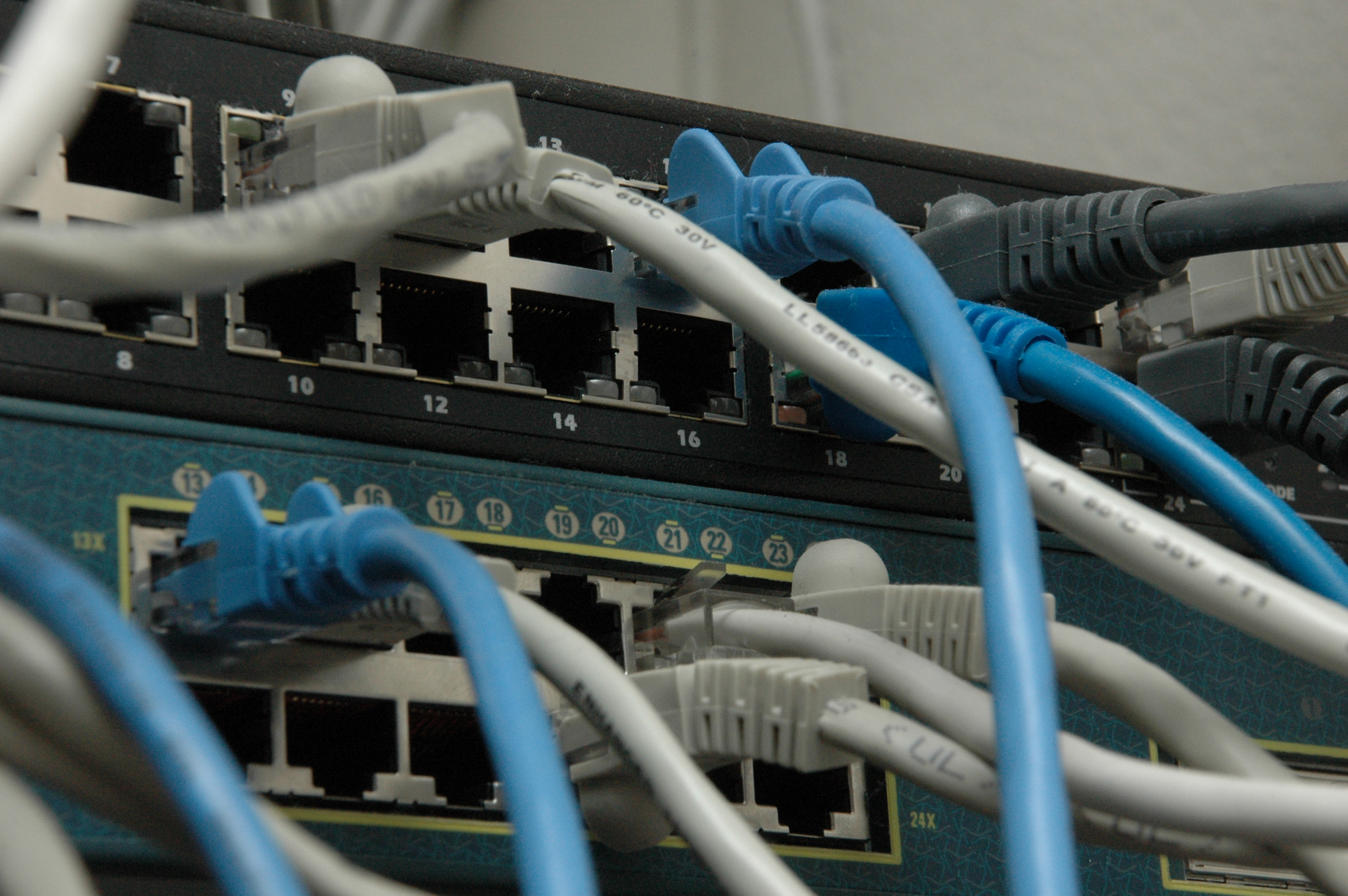 Two network switches and CAT5 cables.